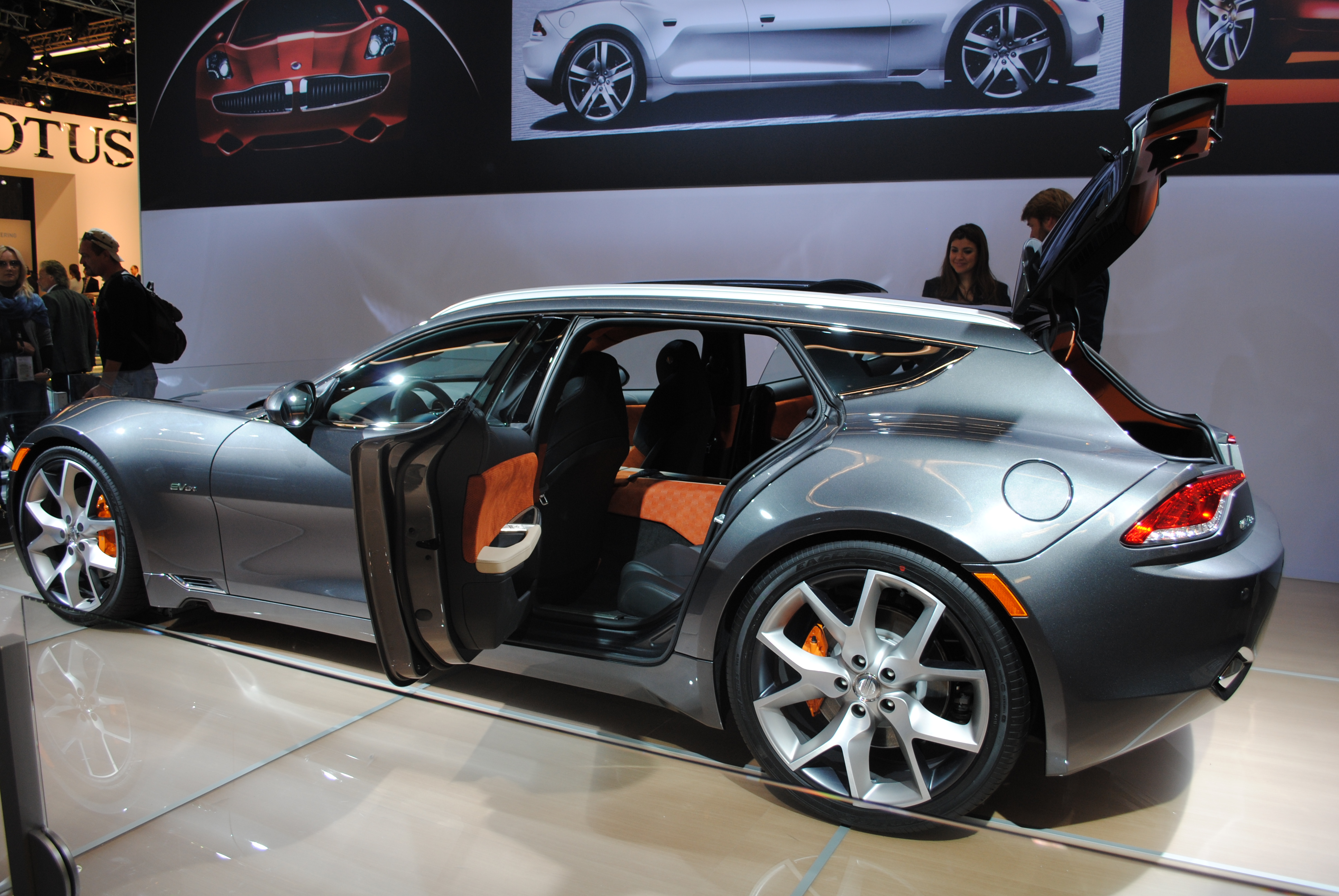 For more images + info, please